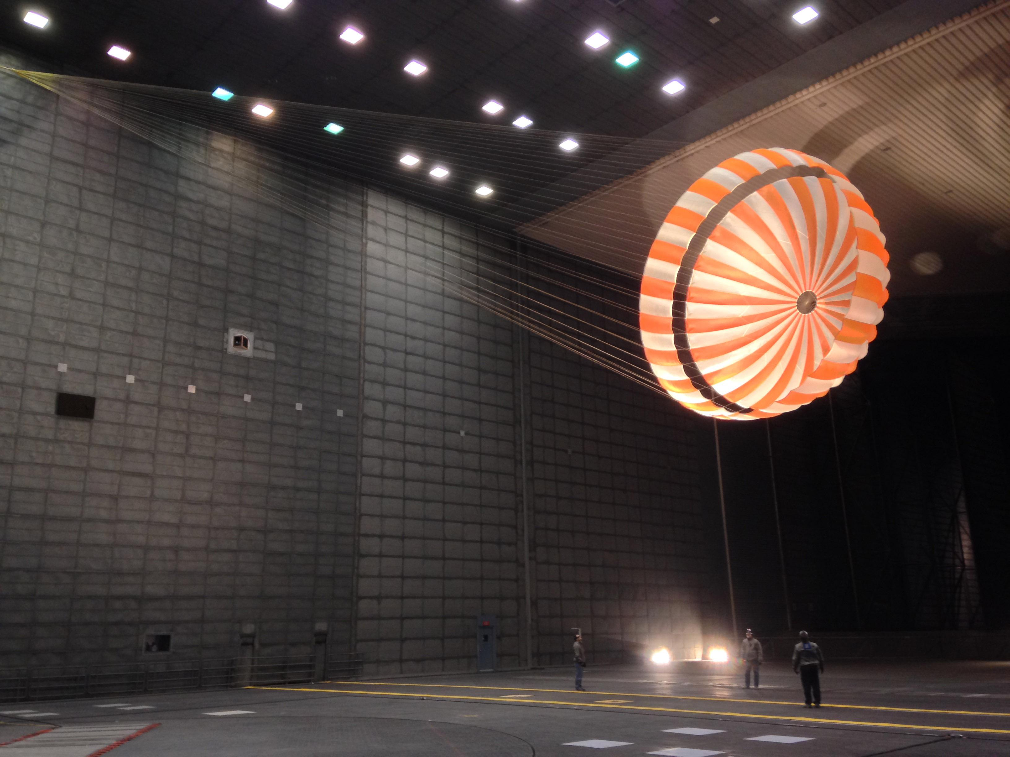 PIA19405: Parachute Testing for NASA's InSight Mission This parachute testing for NASA's InSight mission to Mars was conducted inside the world's largest wind tunnel, at NASA Ames Research Center, Moffett Field, California, in February 2015. The wind tunnel is 80 feet (24 meters) tall and 120 feet (37 meters) wide. It is part of the National Full-Scale Aerodynamics Complex, operated by the Arnold Engineering Development Center of the U.S. Air Force. InSight, for Interior Exploration Using Seismic Investigations, Geodesy and Heat Transport, is scheduled to launch in March 2016 and land on Mars in September 2016. The lander will investigate the deep interior of Mars to gain information about how rocky planets, including Earth, formed and evolved. Lockheed Martin Space Systems, Denver, is building the InSight spacecraft. The InSight Project is managed by NASA's Jet Propulsion Laboratory, Pasadena, California, for the NASA Science Mission Directorate, Washington. InSight is part of NASA's Discovery Program, which is managed by NASA's Marshall Space Flight Center in Huntsville, Alabama.